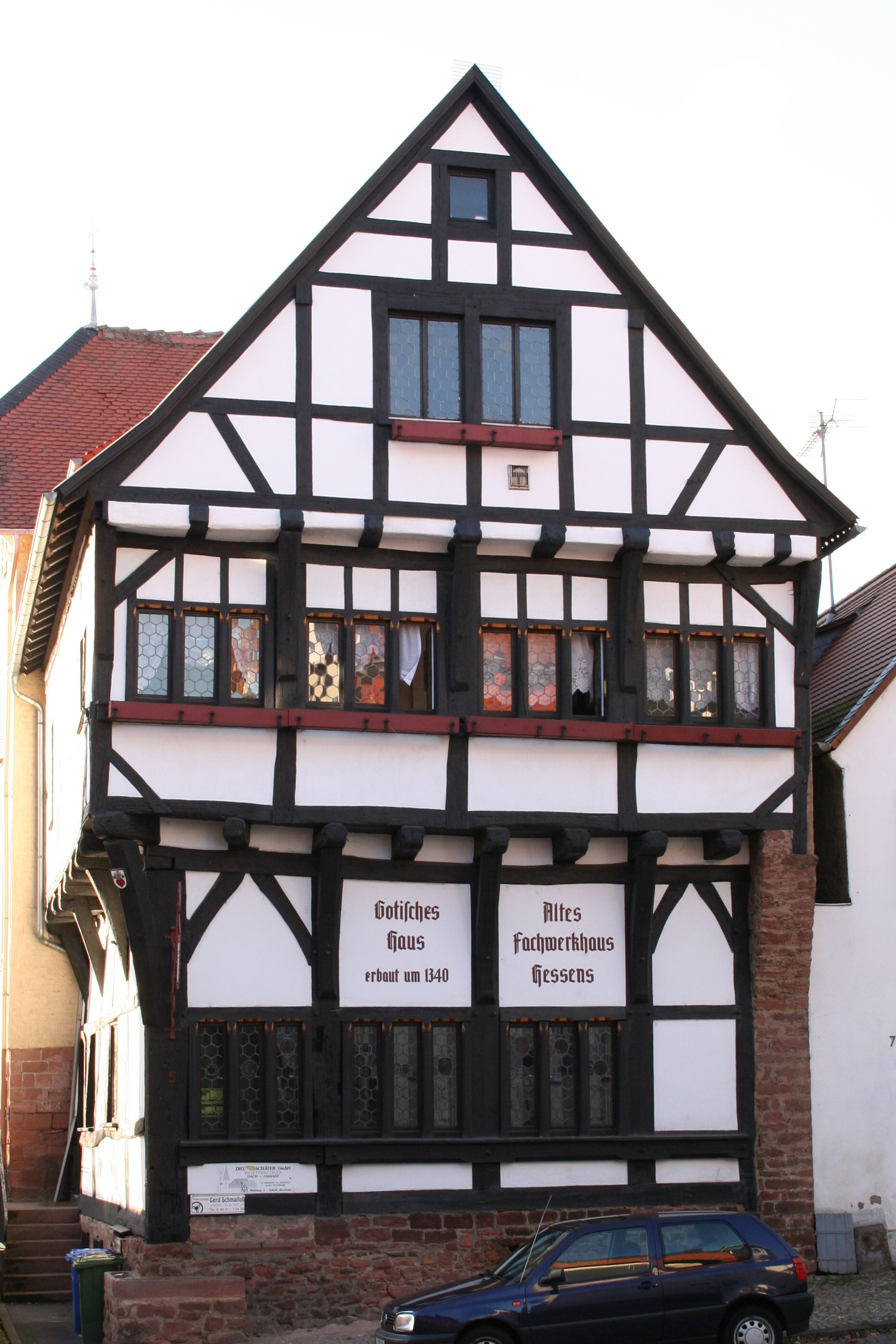 Oldest half timbered house of Hesse in Gelnhausen